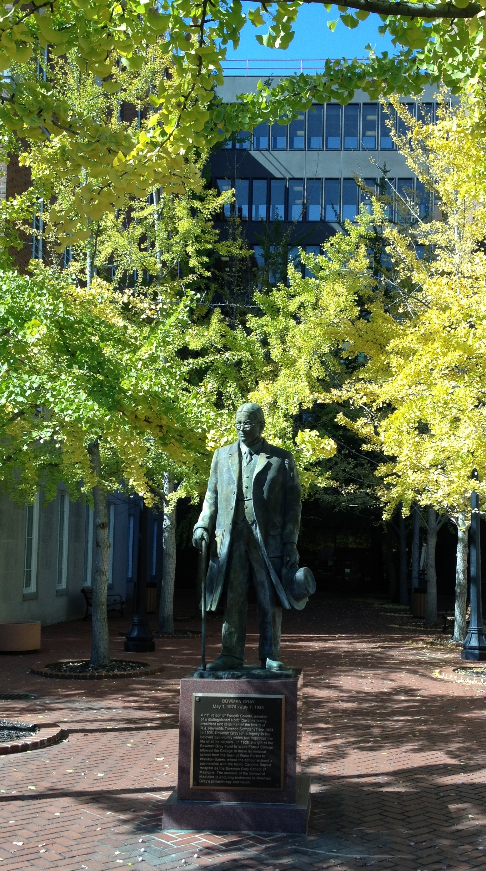 Main entrance to WF SOM with statue of Bowman Gray